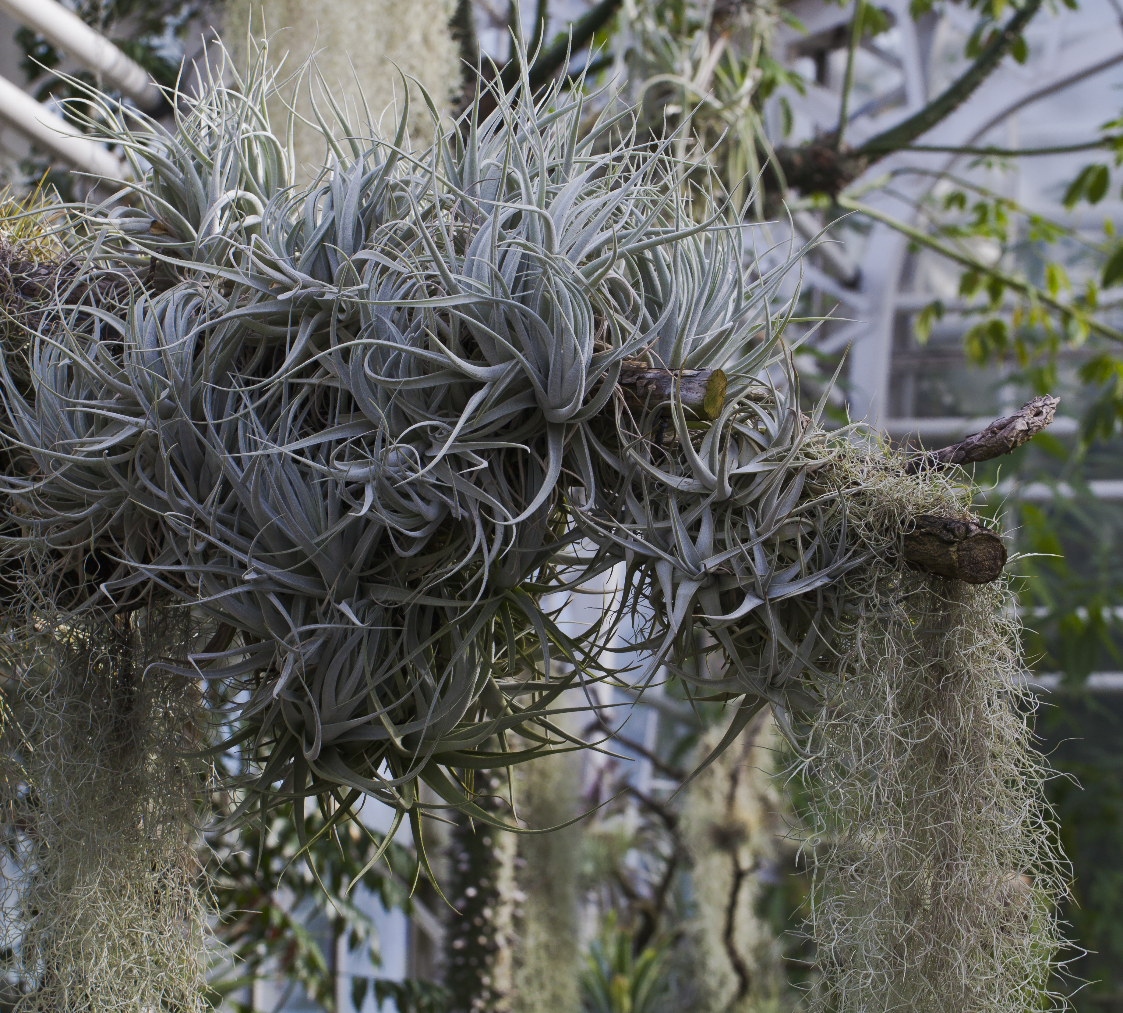 Munich Botanic Garden, Germany